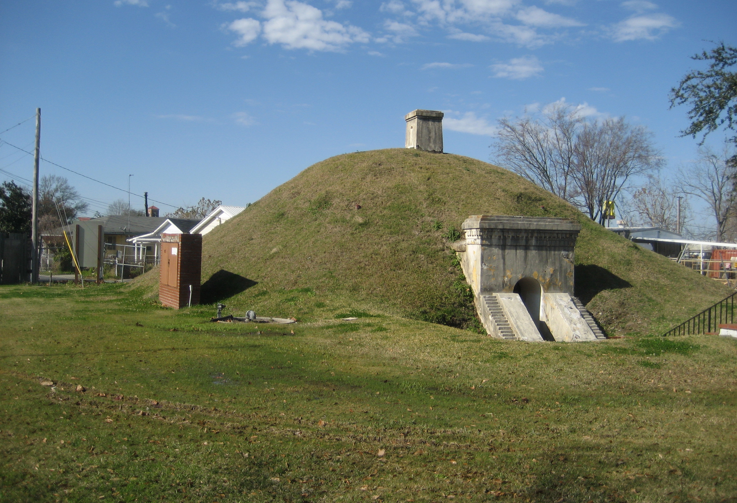 Louisiana: Old American Civil War "Camp Parapet" powder magazine